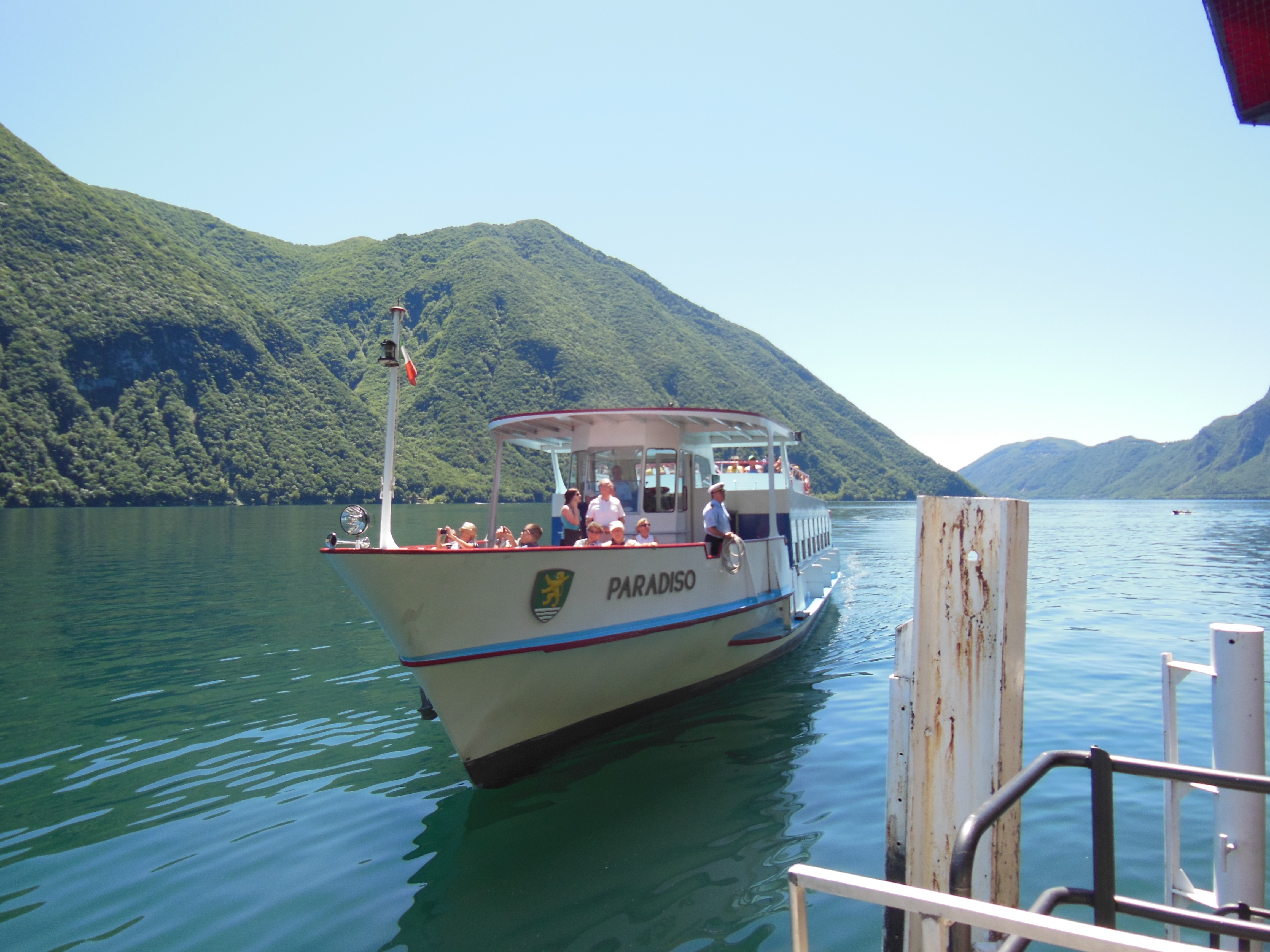 MV Paradiso of the Società Navigazione del Lago di Lugano approaching the quayside at the village of Gandria, on Lake Lugano in Switzerland. For more information, see the Wikipedia articles Gandria and Società Navigazione del Lago di Lugano.